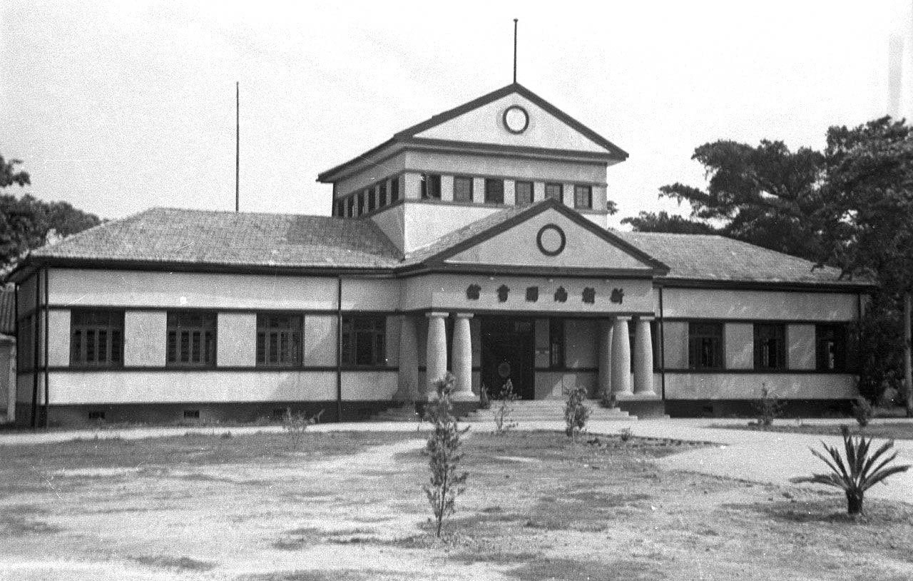 Gannan during the early 1940s. Chiang Ching-kuo was appointed as commissioner of Gannan Prefecture (贛南) between 1939 and 1945.